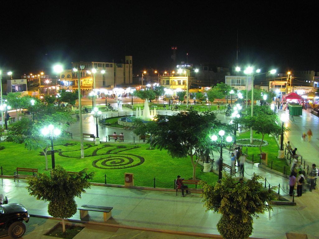 Nasca Main Square Garden, at night.